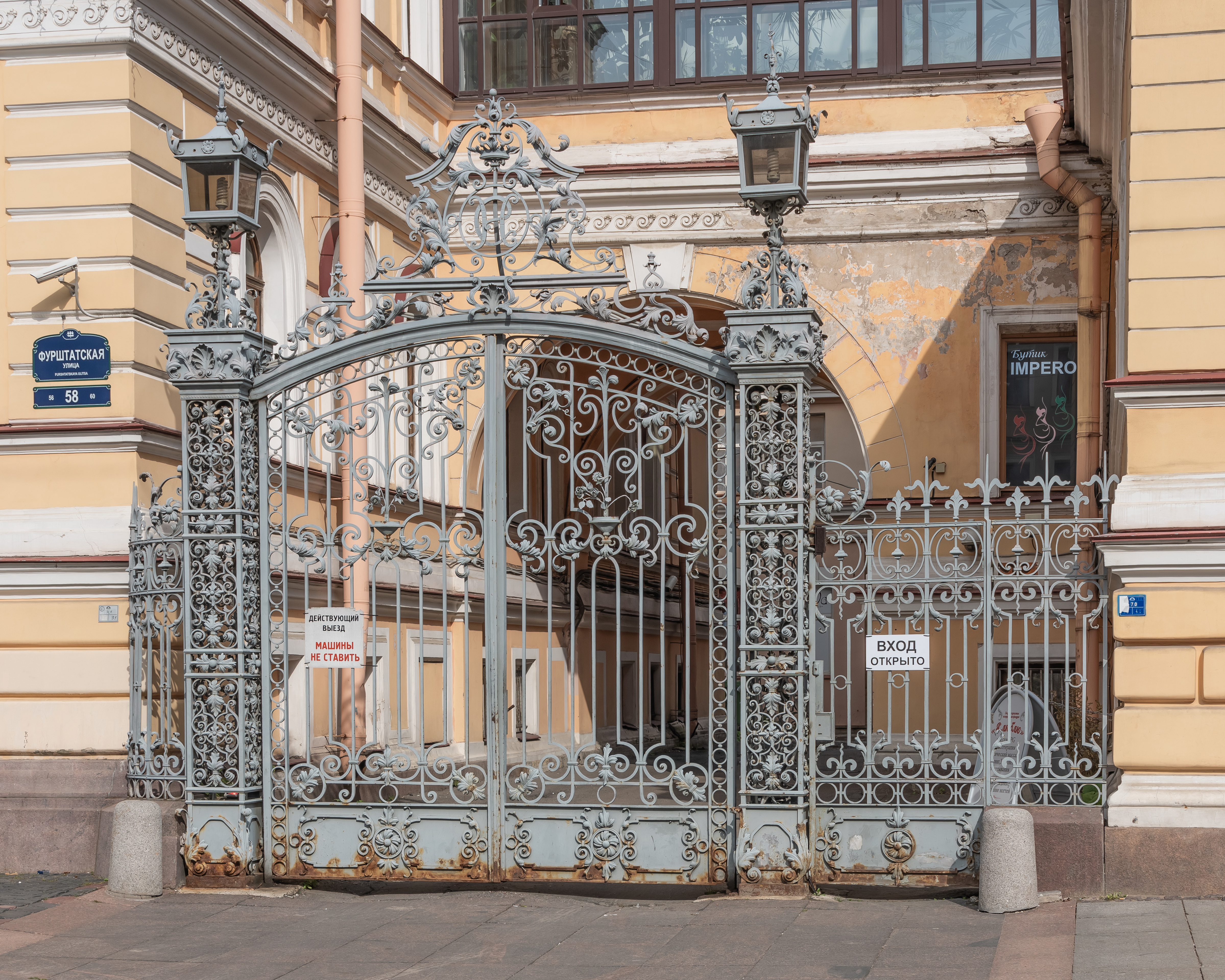 Building at Furshtatskaya Street 58 (Spiridonov Mansion) in Saint Petersburg, Russia